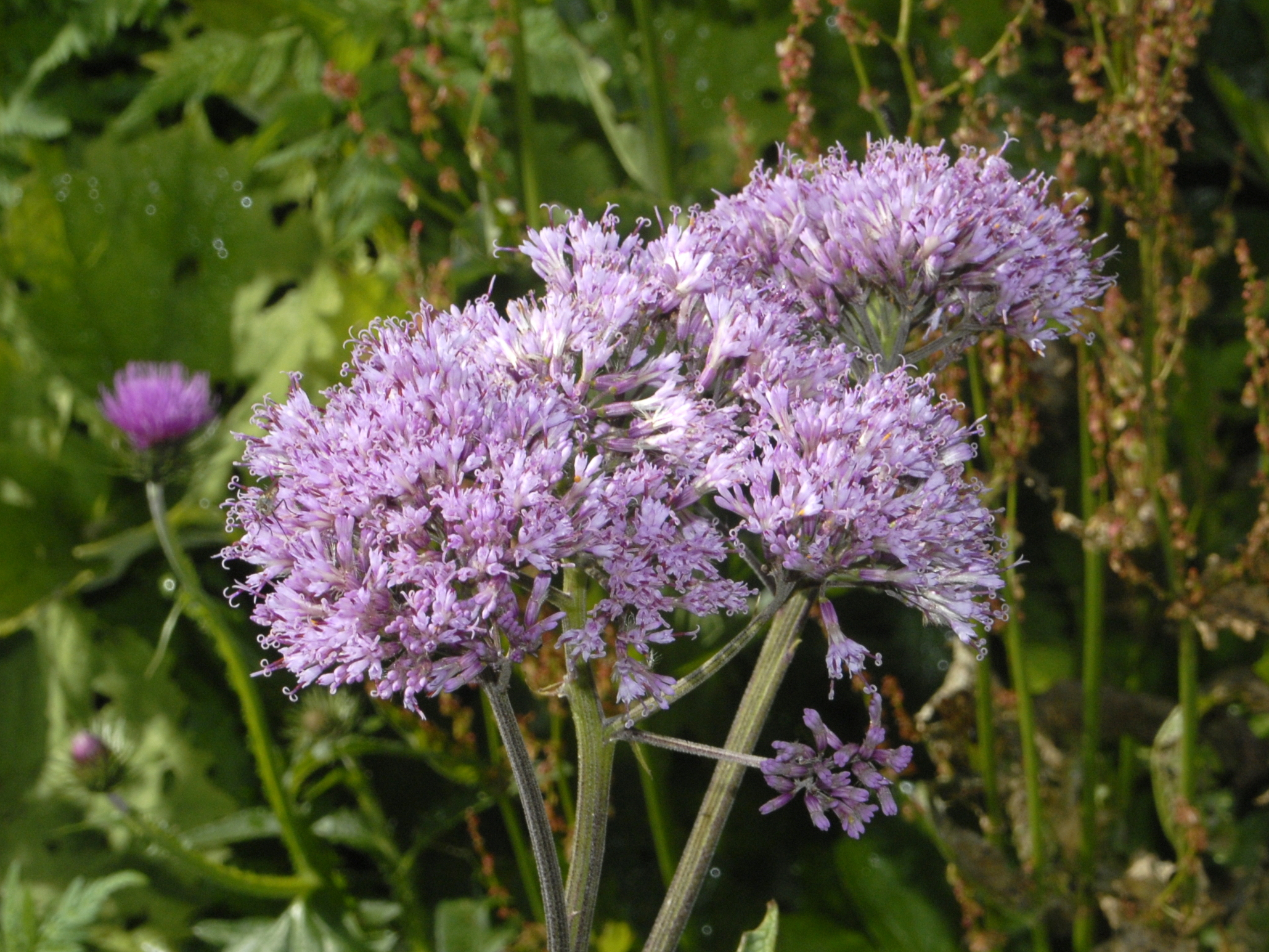 Inflorescence of Adenostyles alliariae at the Giardino Botanico Alpino Chanousia